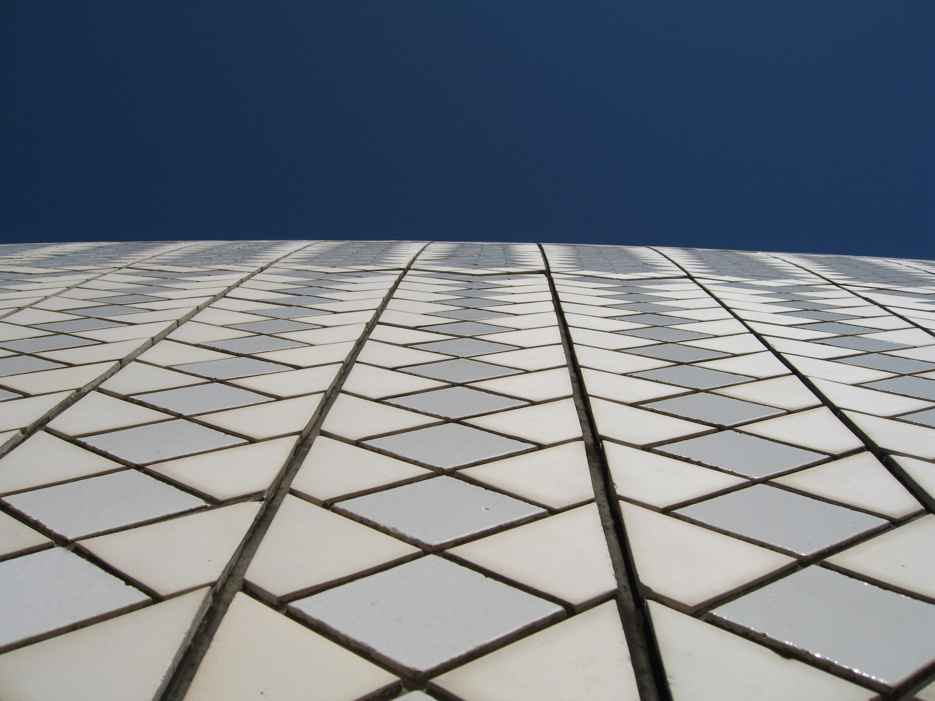 Sydney Opera House tiling, Sydney, Australia.